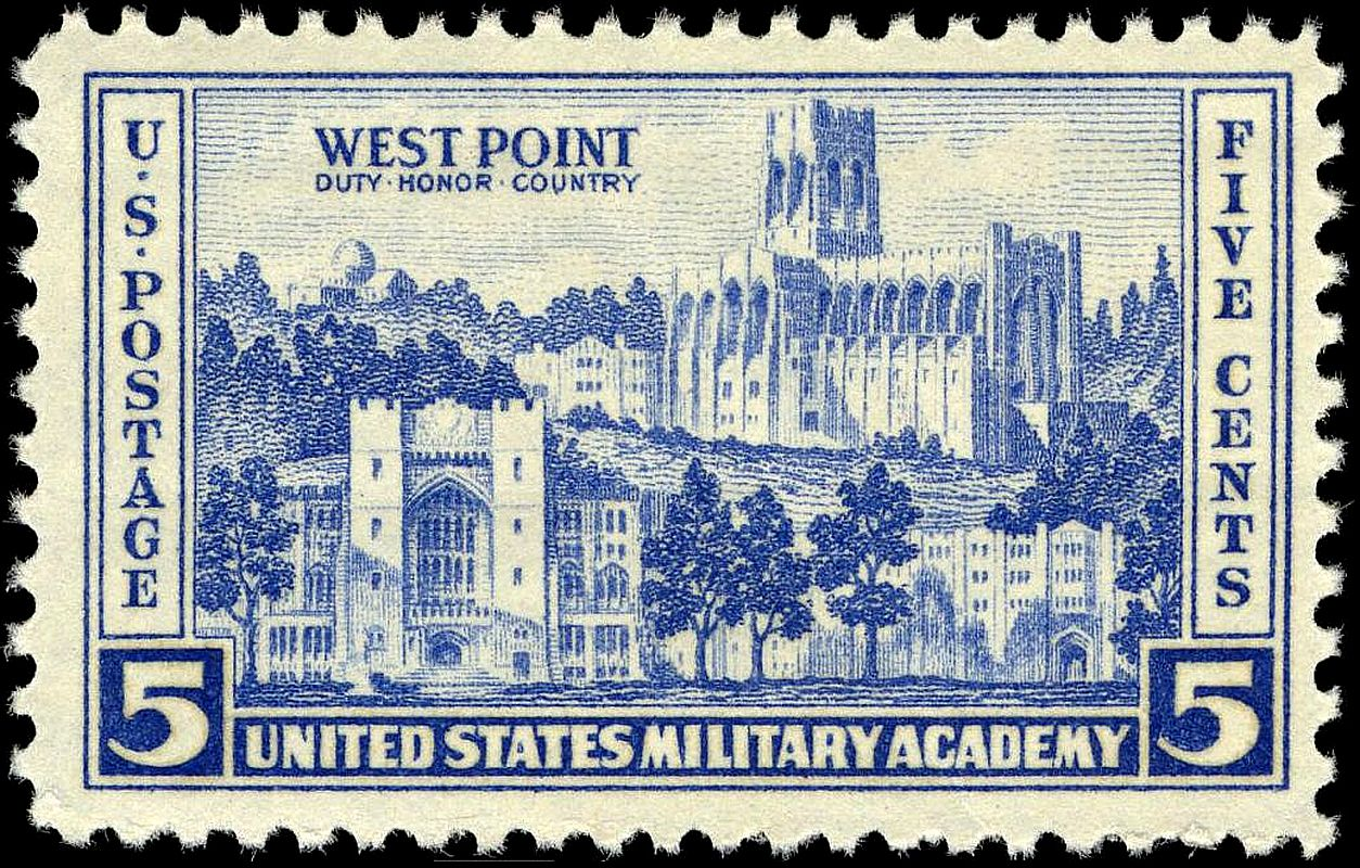 Image of United States Military Academy aka West Point stamp, 5-cents, 1937 issue